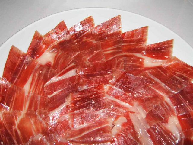 Jamon de Calamocha